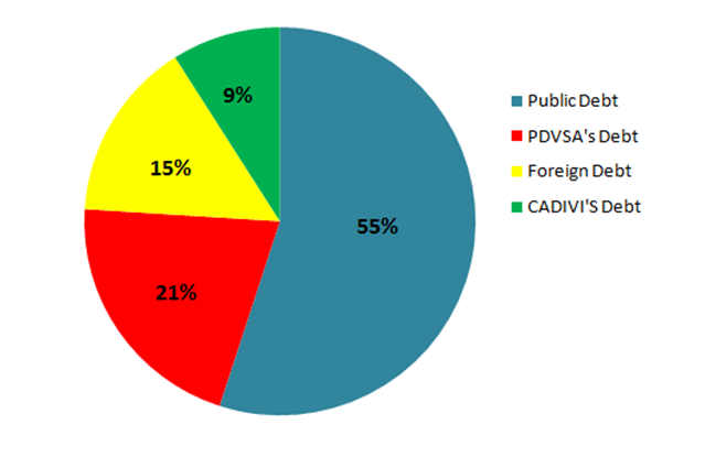 Venezuelan debt, 2014